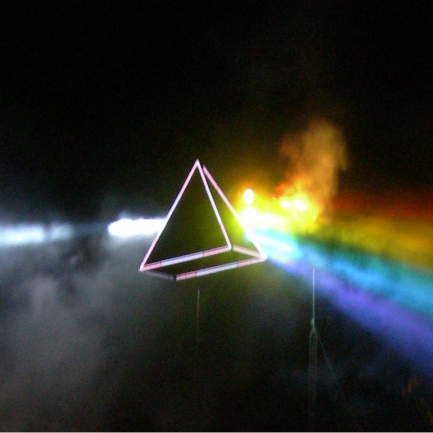 Roger Waters, Hollywood Bowl, "Any Colour You Like" - crop, resembling original cover of The Dark Side of the Moon